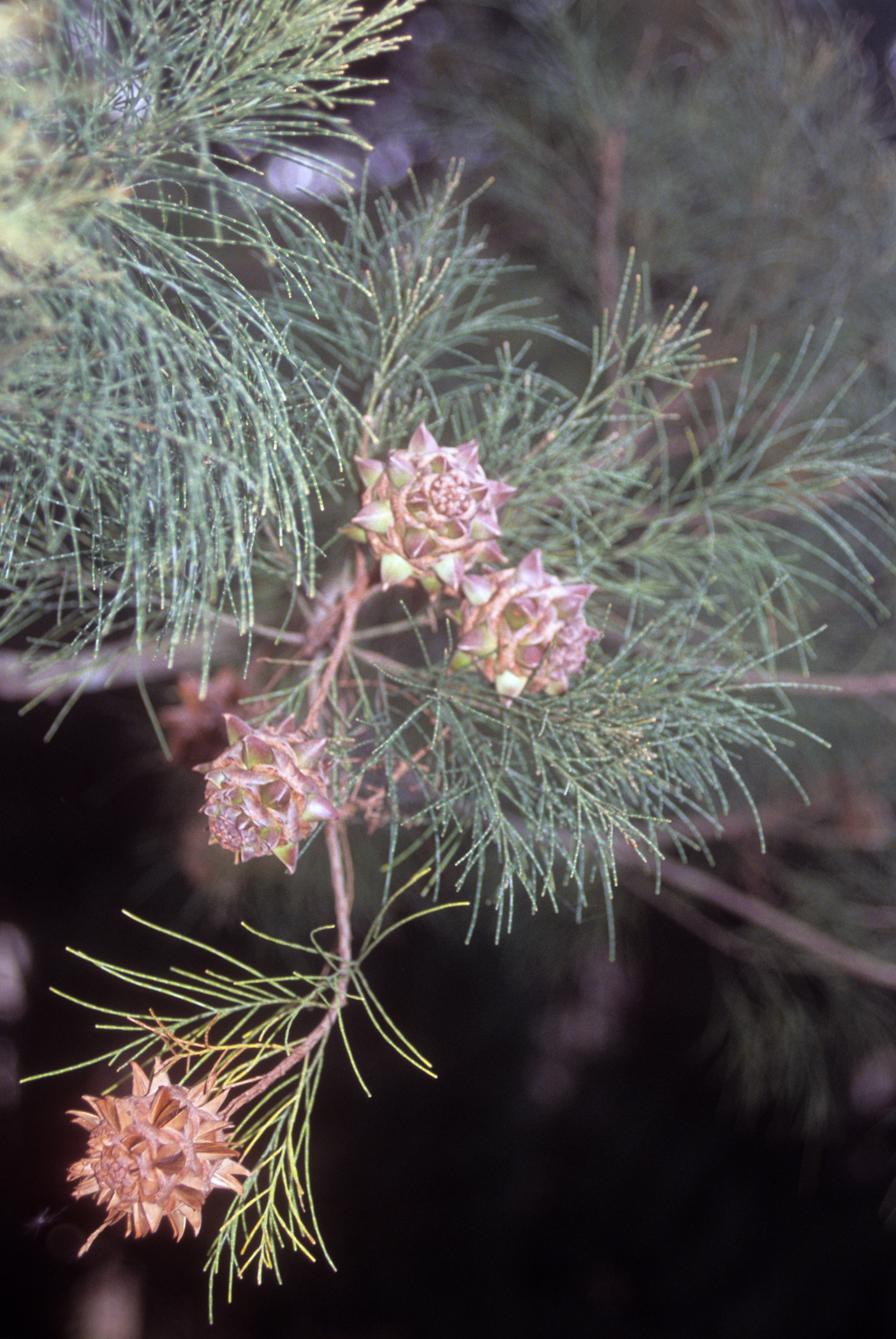 cultivated, Forest Research Institute of Malaysia. Oct. 2002. from slide.